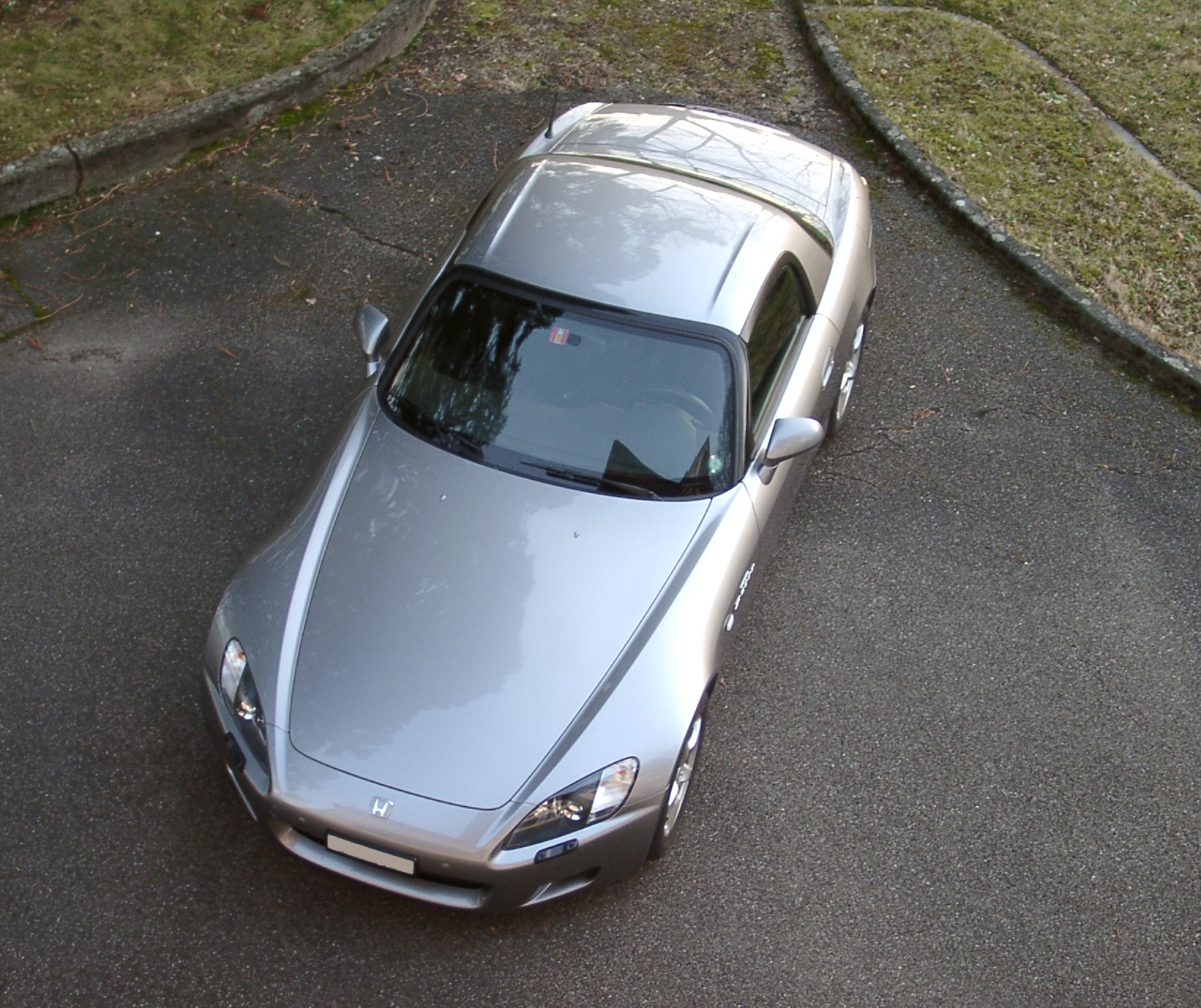 Honda S2000 with Hardtop